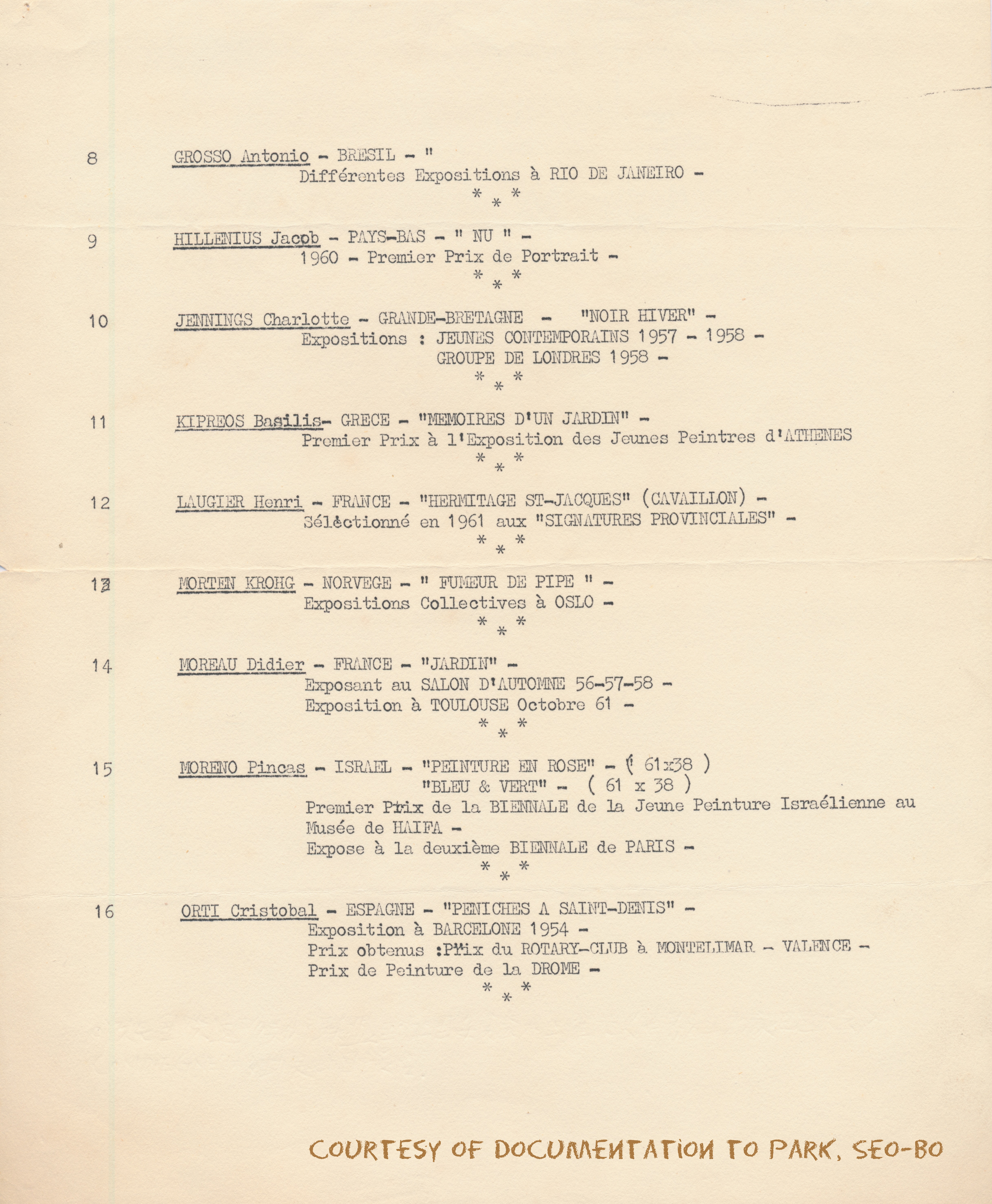 This is the first page of the list of the participants artists who submitted their work to the group exhibition of "Jeunes peintres du monde à Compiègne" held on October 21-22 in 1961. The exhibition was part of the residence program of "Jeunes peintres du monde à Paris" organized by the French Committee of International Association of Art and supported by UNESCO. The program was run from October 2 to October 28 in 1961, parallel with the 2nd Paris Biennial which started on September 28. This scanned list is provided by the daughter of Park Seo-Bo's with his consent. Park Seo-Bo is one and the Korean representative artist of the 27 artists from 24 countries.